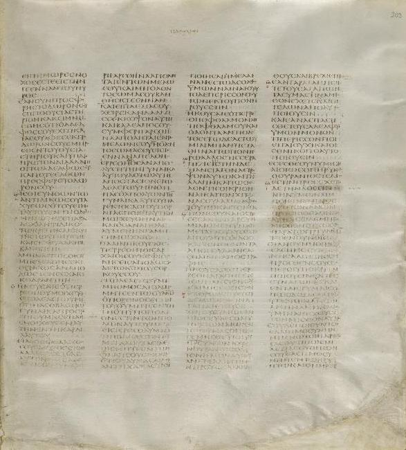 page of the codex with text of Matthew 5:22-6:4